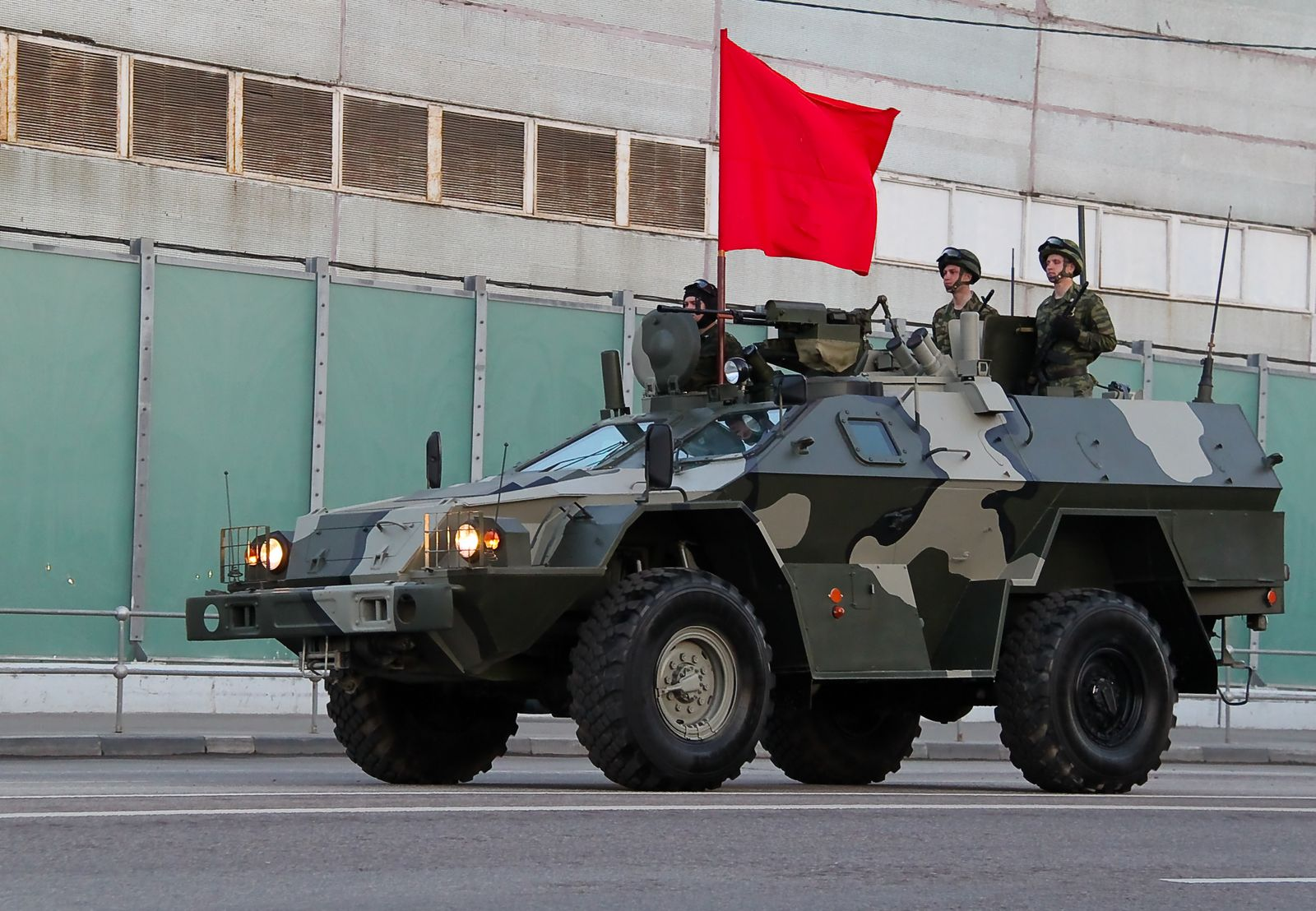 A Russian BPM-97 APC.